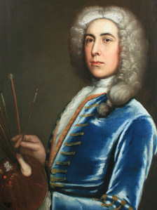 Self-portrait of the 18th century artist Welsh Edward Owen